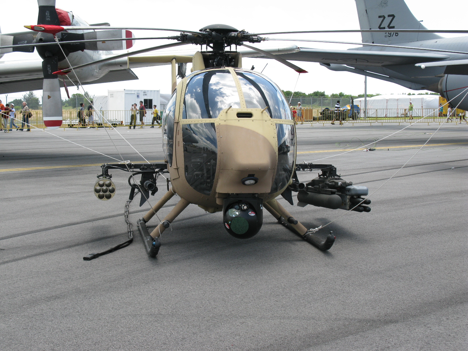 Singapore Air Show 2010: Fully laden Boeing AH-6